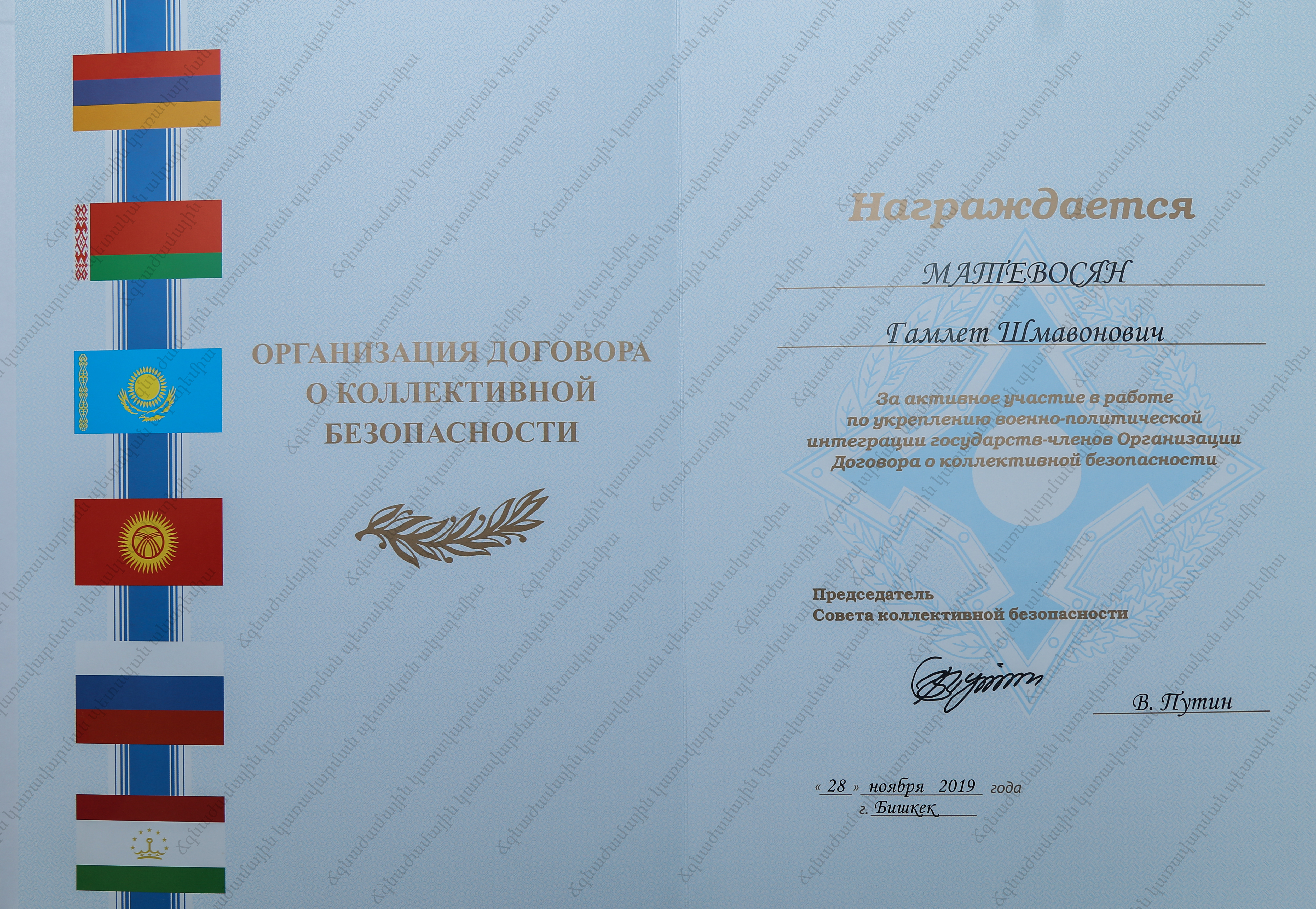 Hamlet Matevossian, award